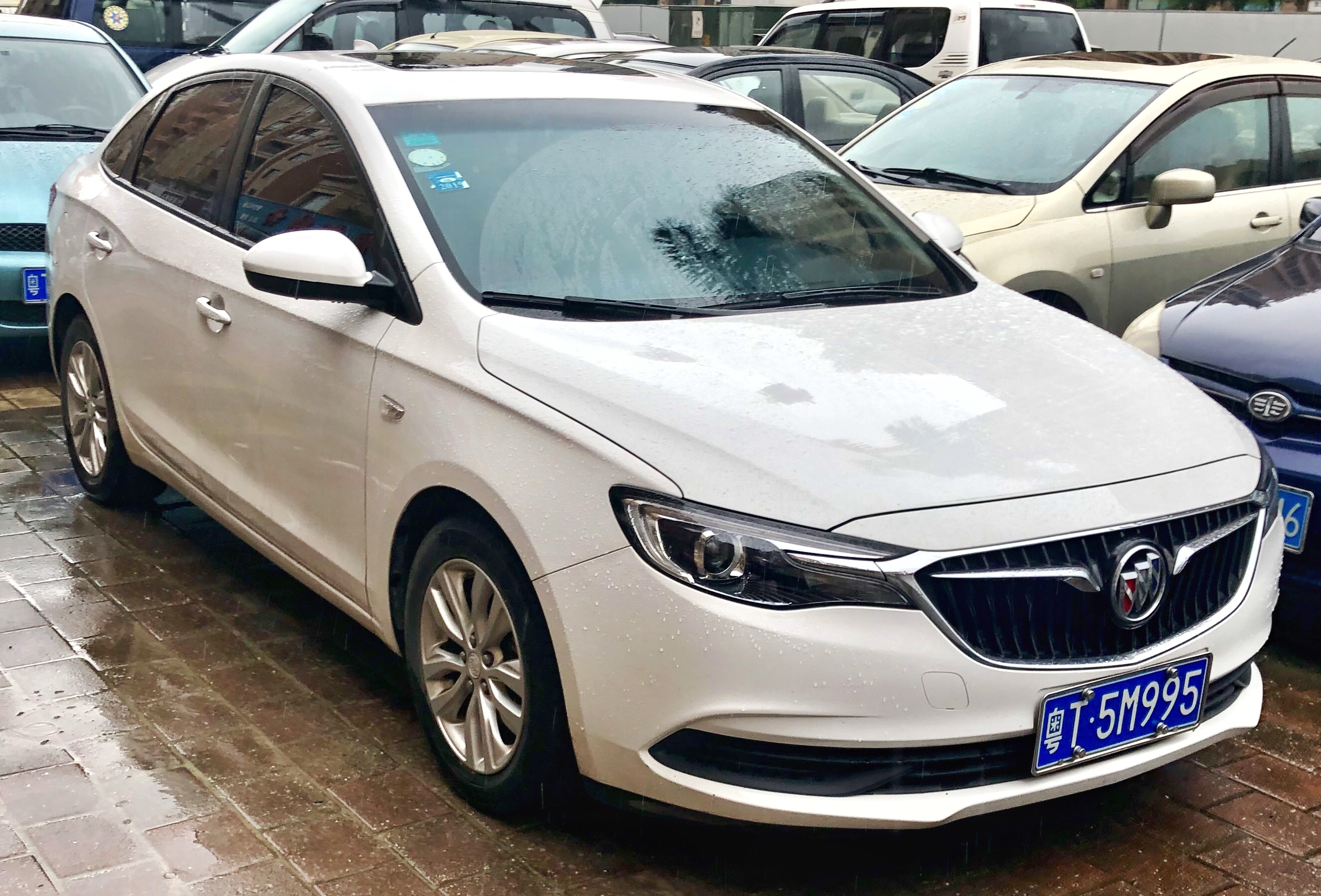 A 2018 Buick Excelle GT taken in Zhongshan, Guangdong province, China. 中文（中国大陆）: 一辆2018年的别克英朗，摄于中国广东省中山市。